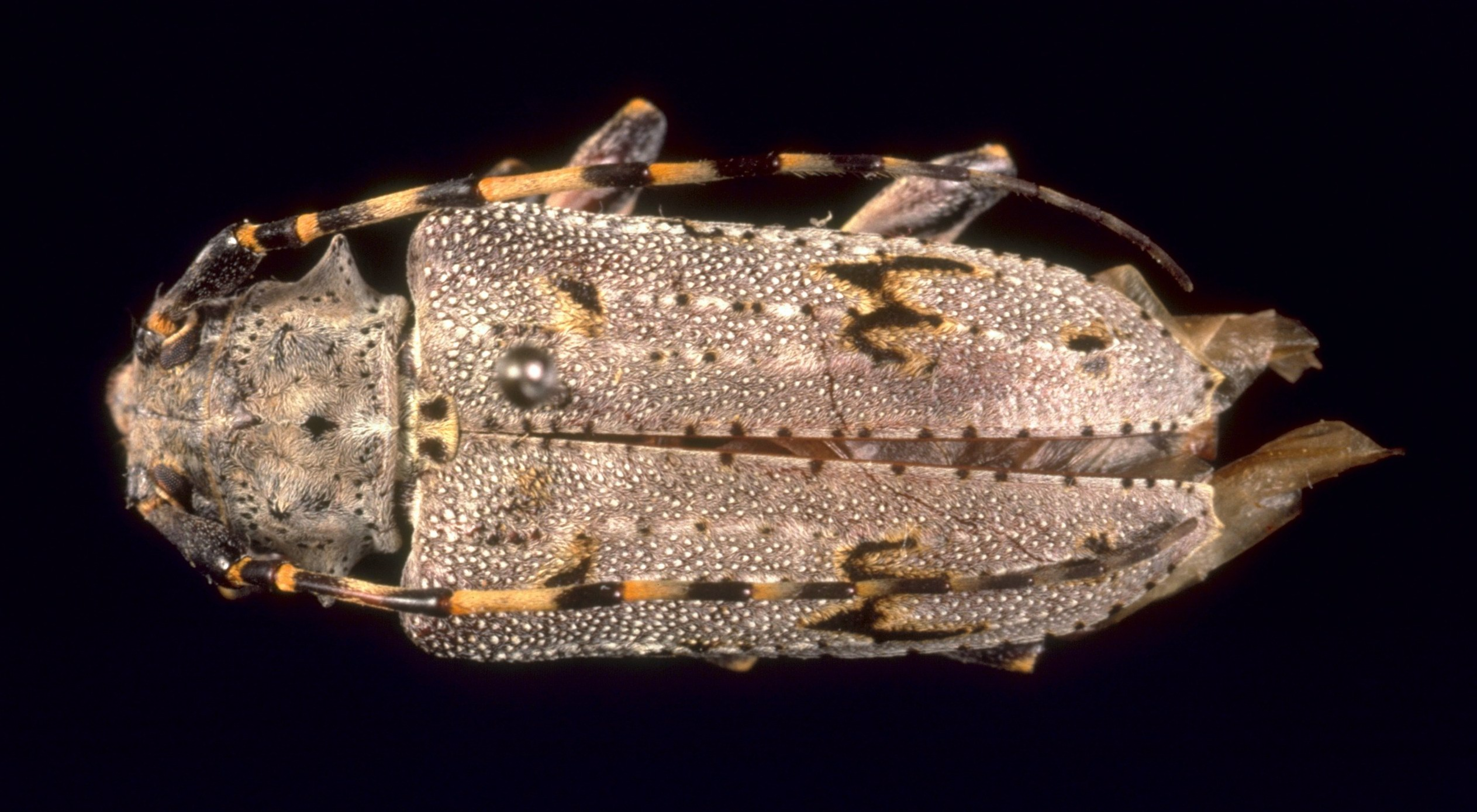 Aegomorphus morrisi Uhler, 1855 Common Name: tupelo borer Photographer: James Solomon, USDA Forest Service, United States Descriptor: Adult(s) Image taken in: United States